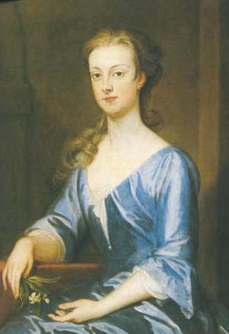 Henrietta Godolphin, 2ª Duquesa de Marlborough (1681-1733)